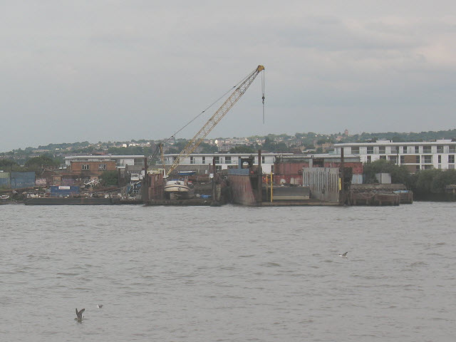 Boatyard at Badcock's Wharves (1), near to Greenwich, Great Britain. Looking across the Thames from Cubitt Town to one of the few remaining working boatyards on the river. For the other part of the yard to the left (north) see TQ3978 : Boatyard at Badcock's Wharves (2) .